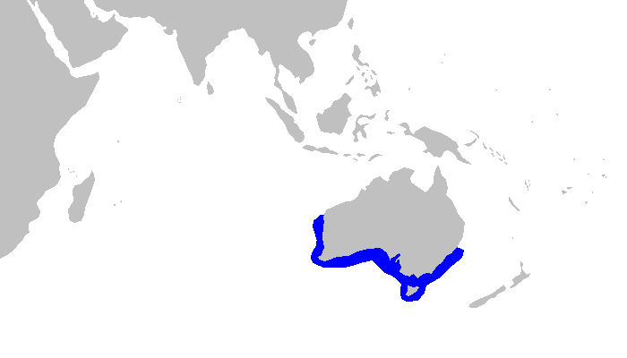 Distribution map for Galeus boardmani